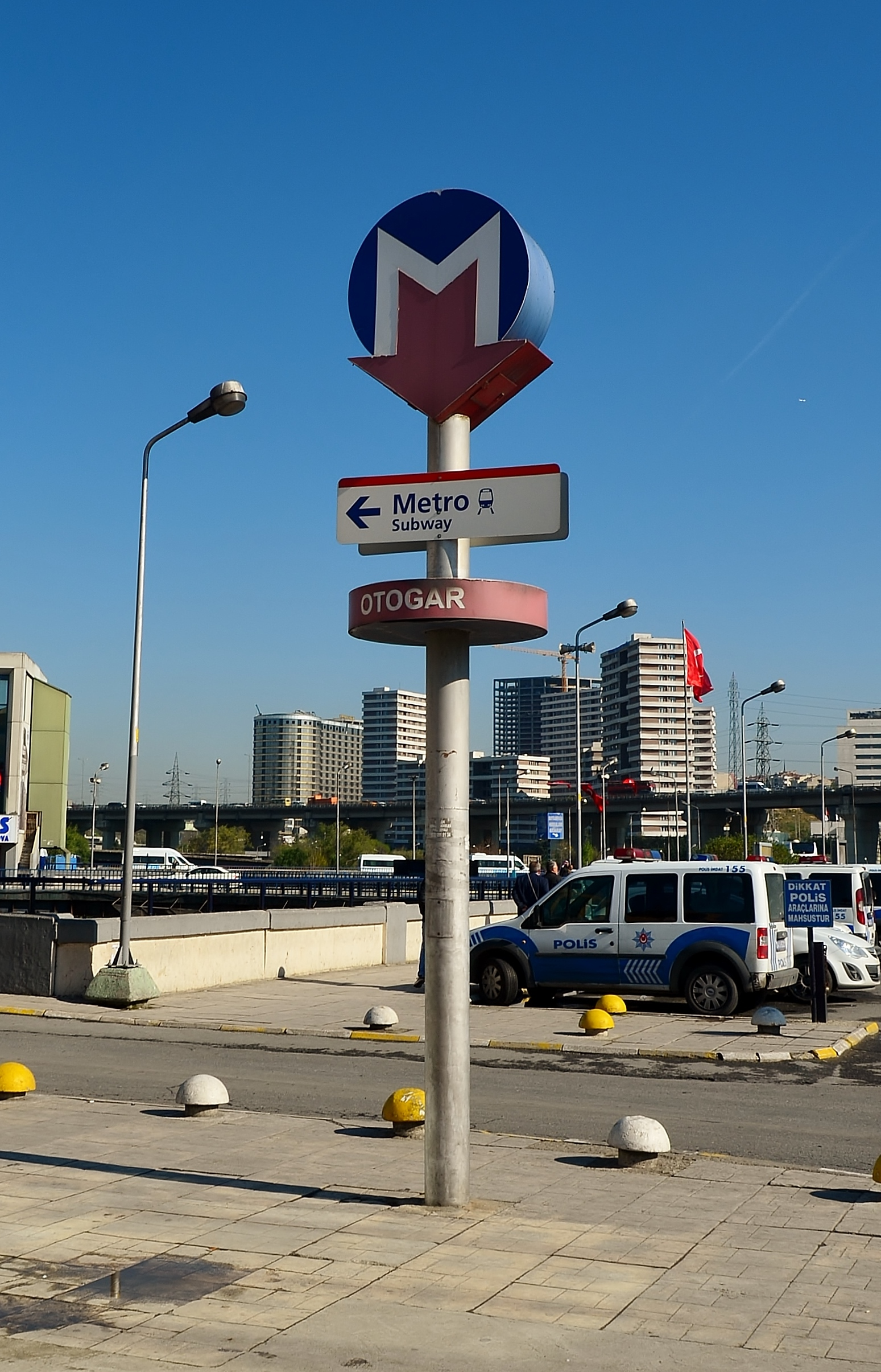 Otogar metro station sign at Esenler Bus Terminus (Otogar) in Istanbul, Turkey